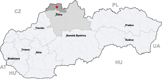 map of Slovakia, city of Čadca highlighted